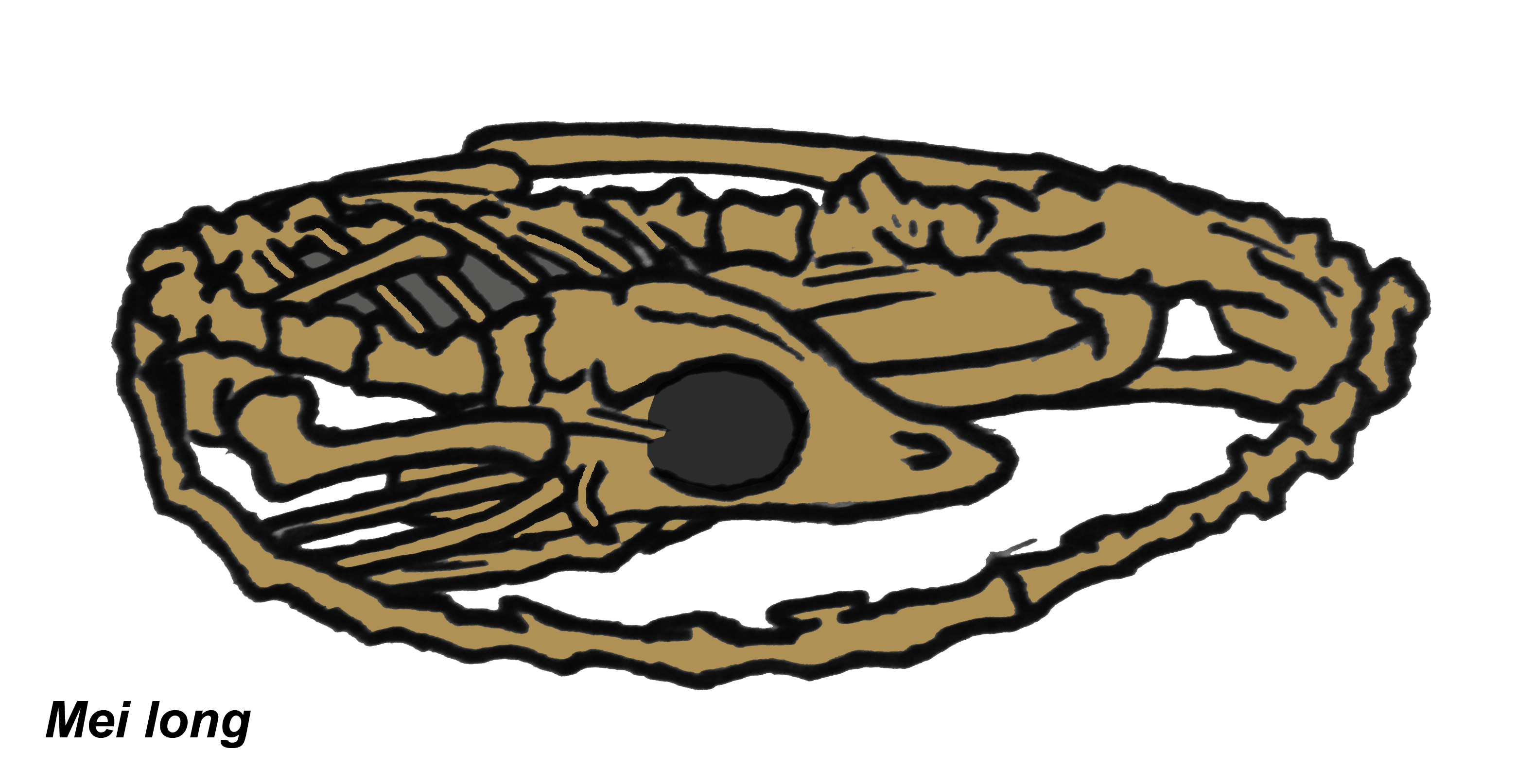 Simple illustration of the fossil from the Troodontid dinosaur Mei long, fossilized while sleeping. This is believed to have happened in a volcanic eruption. See references Photo of the fossil. Mei long described in the journal Nature (2004).